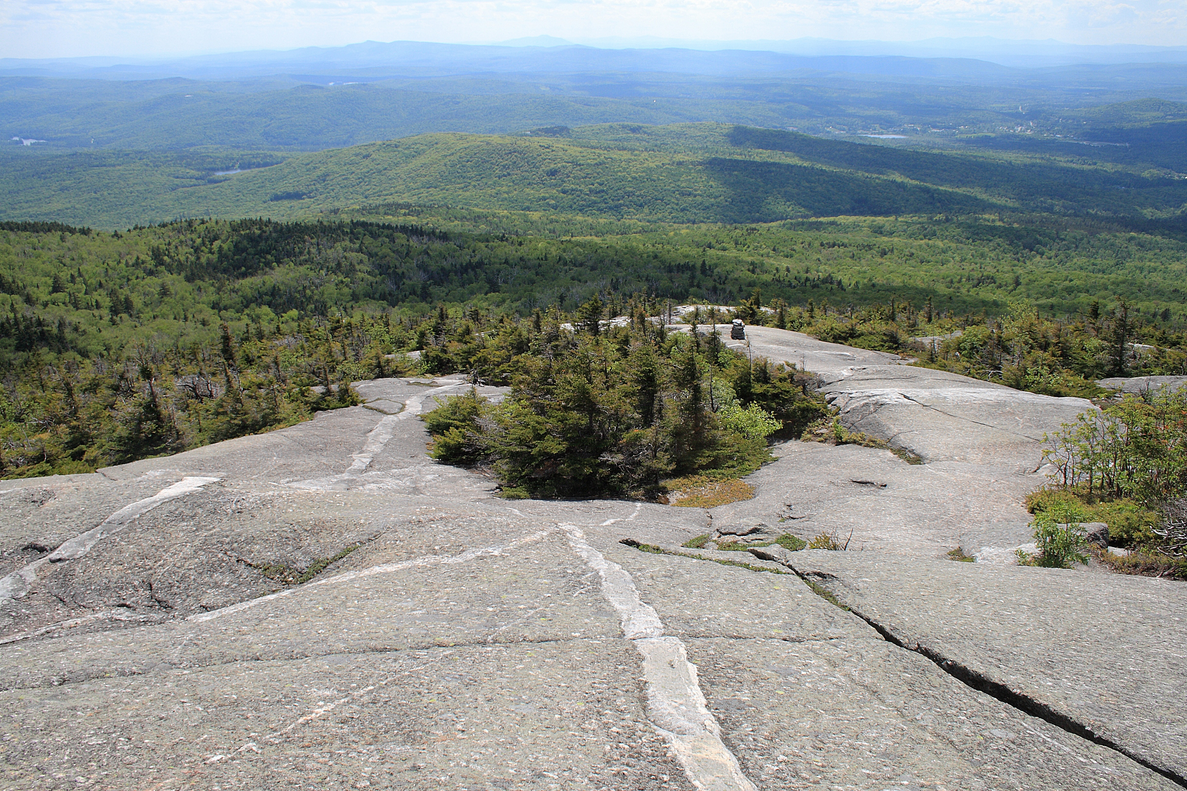 OpenStreetMap (Info) A view down the slope from near the peak of Mount Cardigan